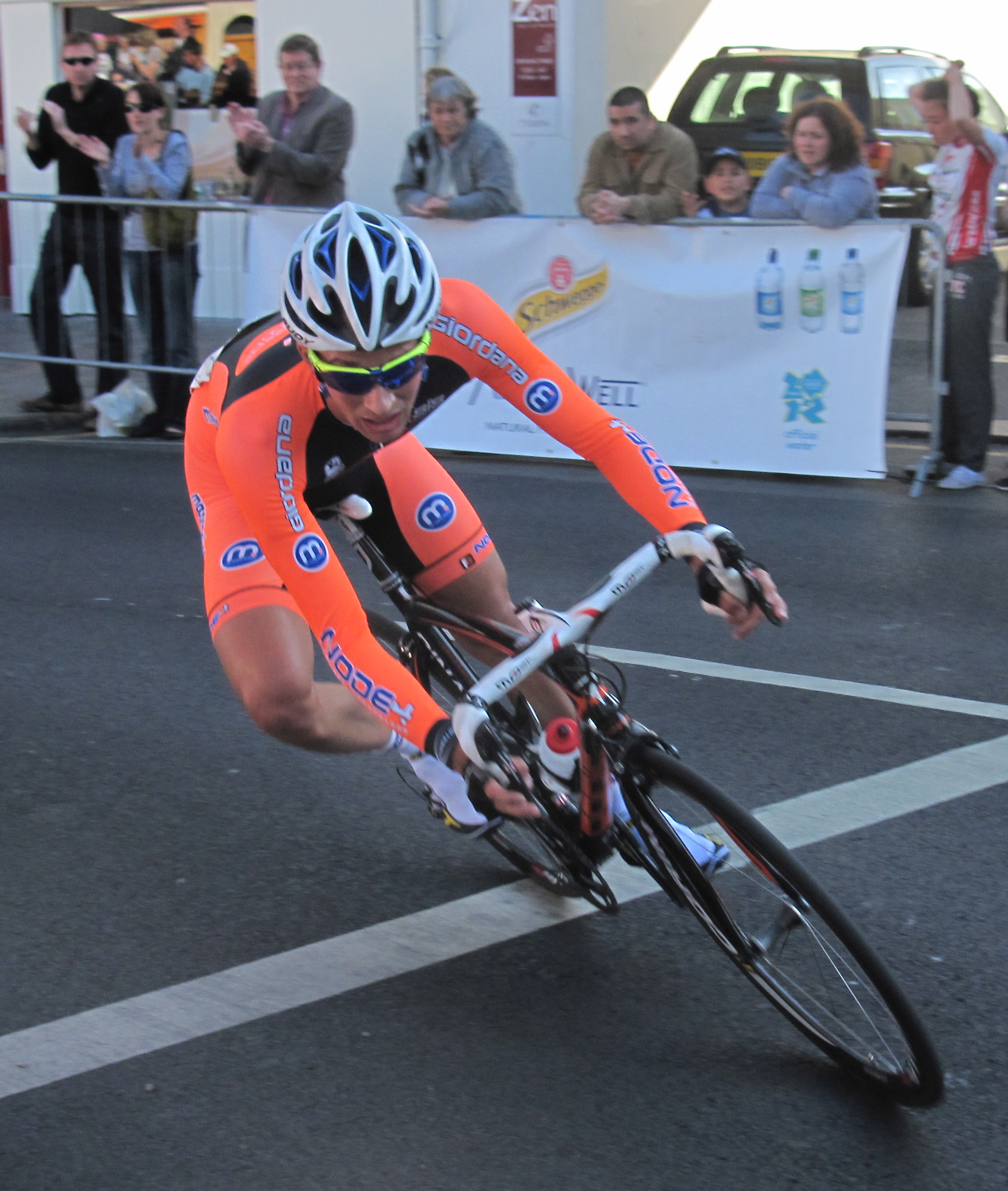 Jersey Town Criterium bicycle races, Saint Helier, Jersey